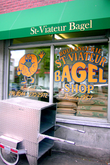 World famous bagels. I know lots of people in Banff that know about this place. ;)